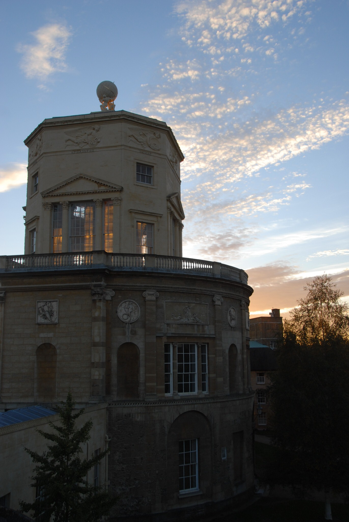 Radcliffe Observatory, Green Templeton College, Oxford